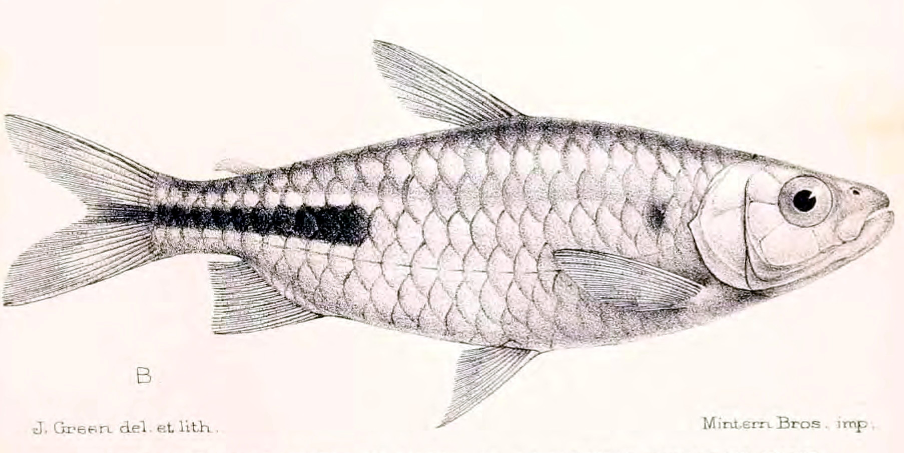 Brycinus kingsleyae (Günther, 1896)